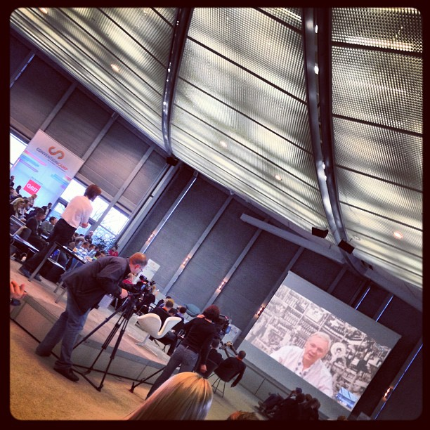 Julian Assange at the #cch12, after having a cup of Ecuadorian coffee...